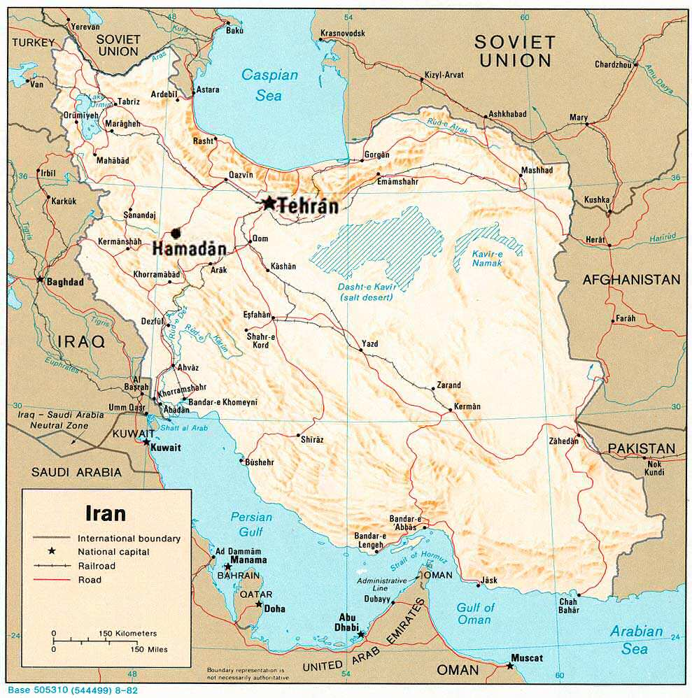 1982 CIA political map of Iran.